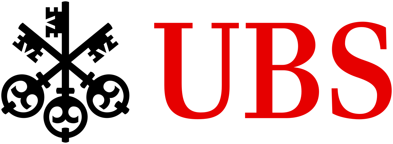 UBS logo